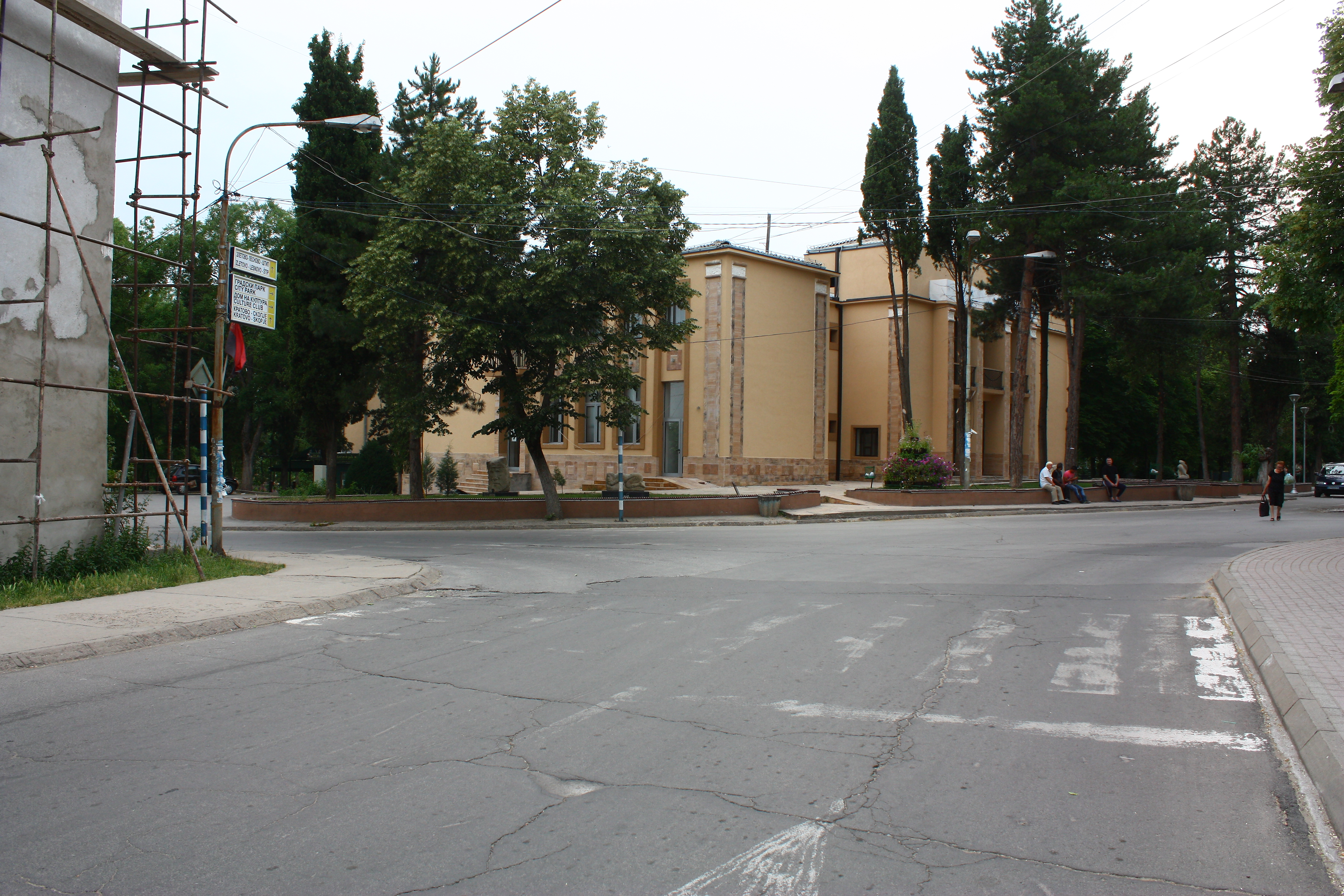 Probištip, Macеdonia.